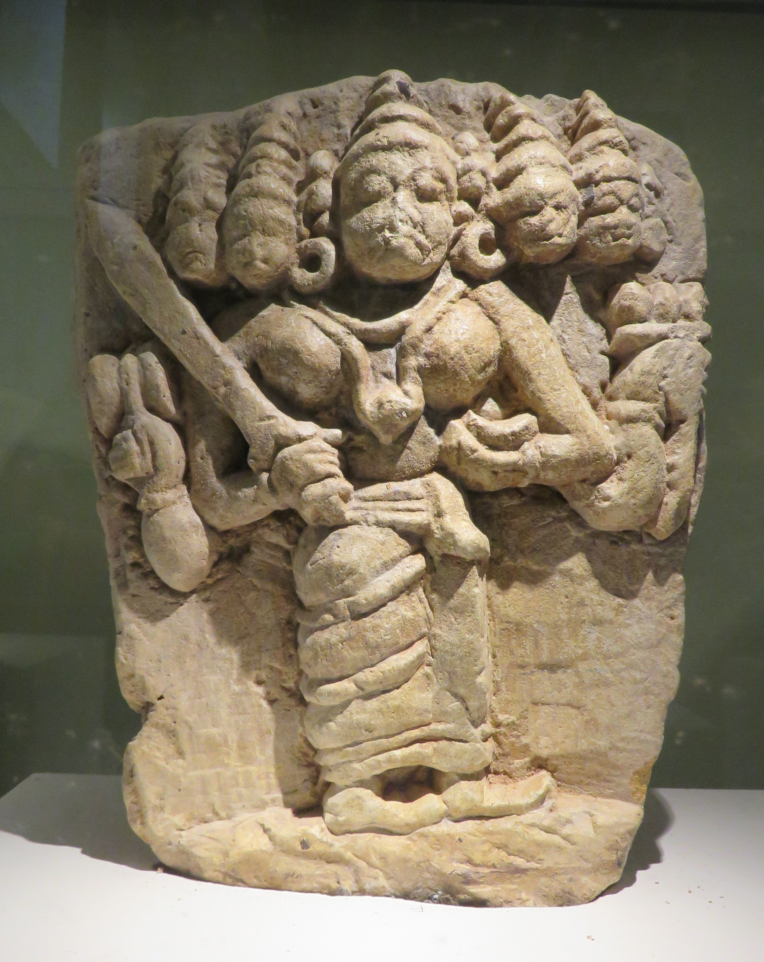 Photos from Wayanad Heritage Museum Ambalavayal 2019 - by Vinayaraj Name -Five headed Goddess - ഐന്തല ഭഗവതി Source -Excavated Period -Unknown Material -Cheenkallu Locality -Edathara Style -Local